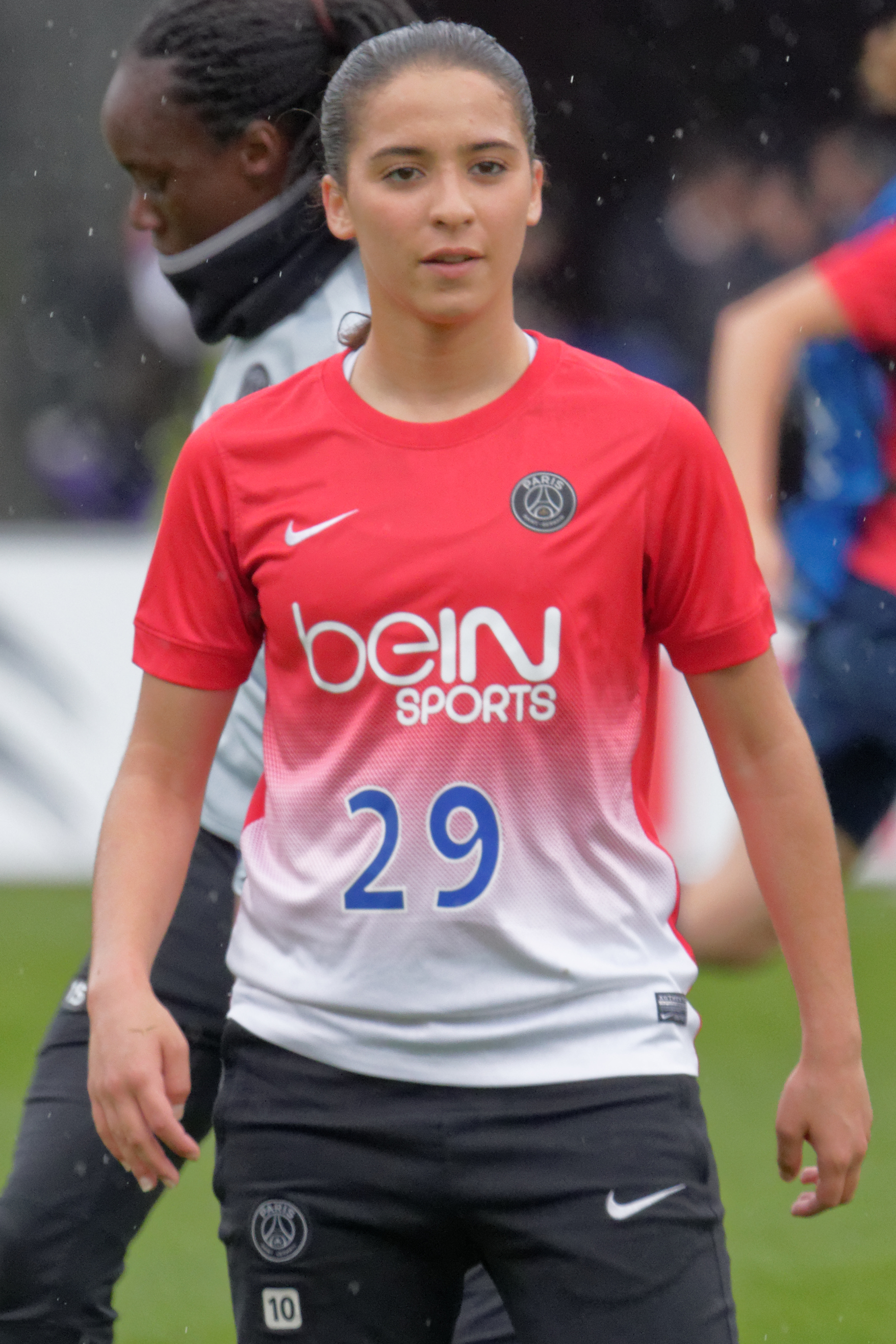 UEFA Women's Champions League, PSG - Wolfsburg, 26 April 2015.